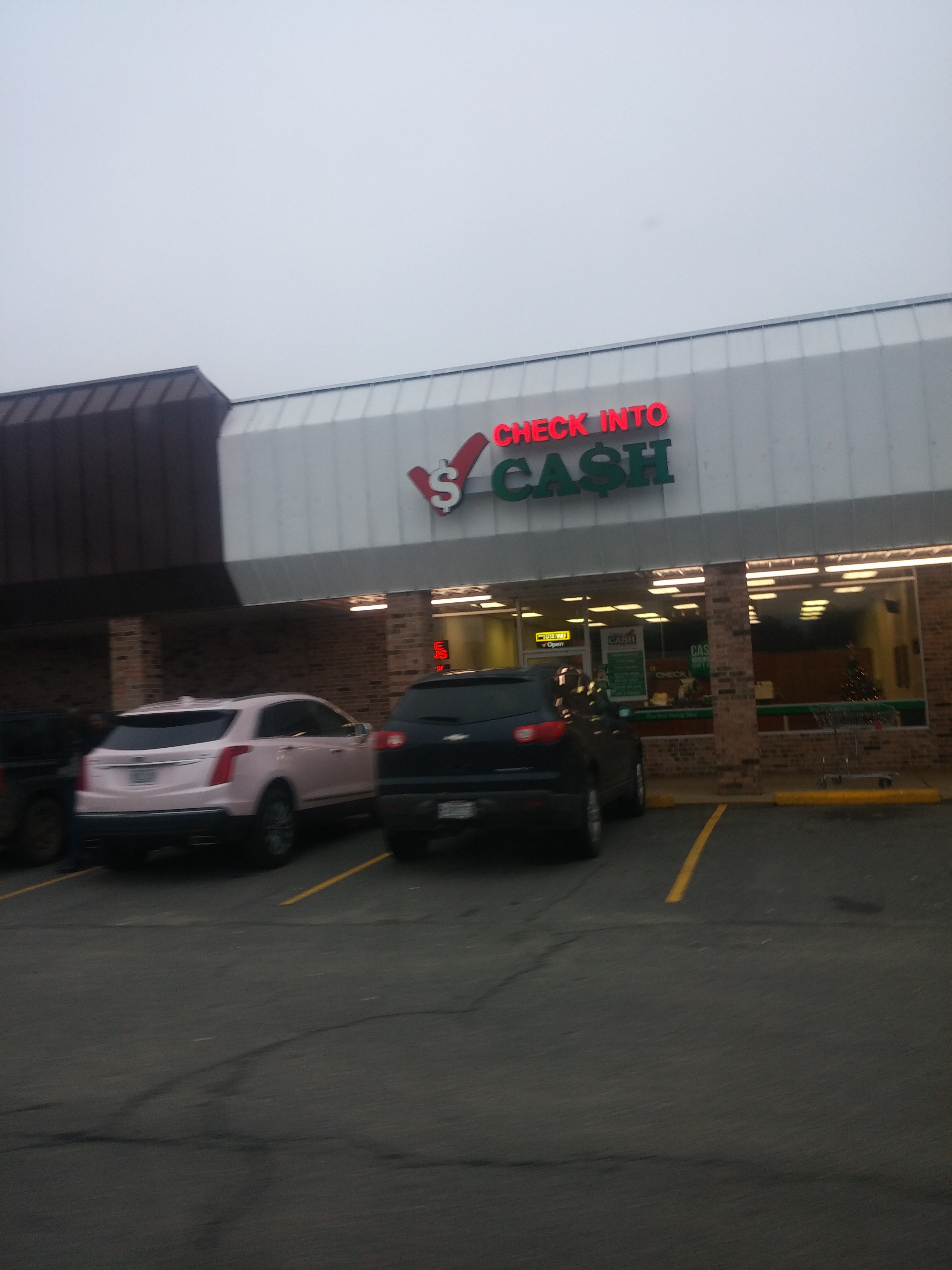 Located off Dixie Plaza